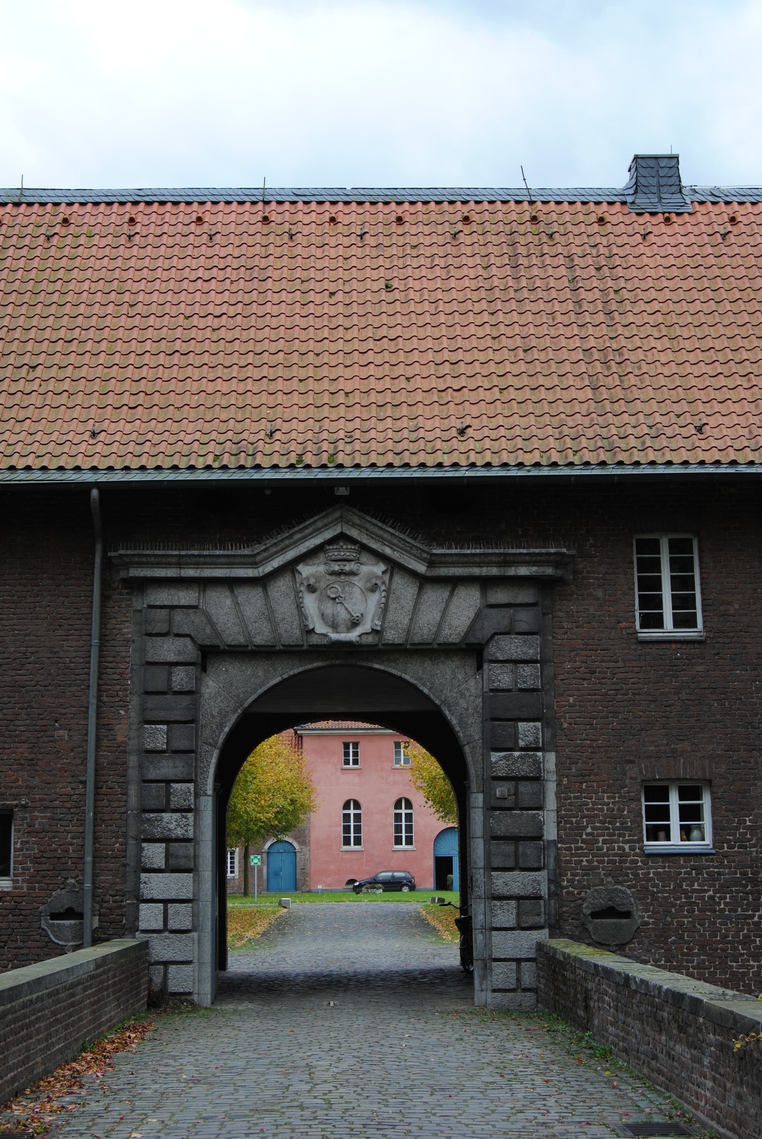 This photograph was taken with a Nikon D3000. This image shows a heritage building in Germany, located in the North Rhine-Westphalian city Düsseldorf (no. 520).